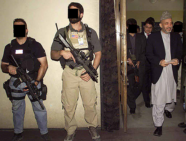 Bodyguards from SEAL Team Six provide close protection for Afghan President Hamid Karzai.